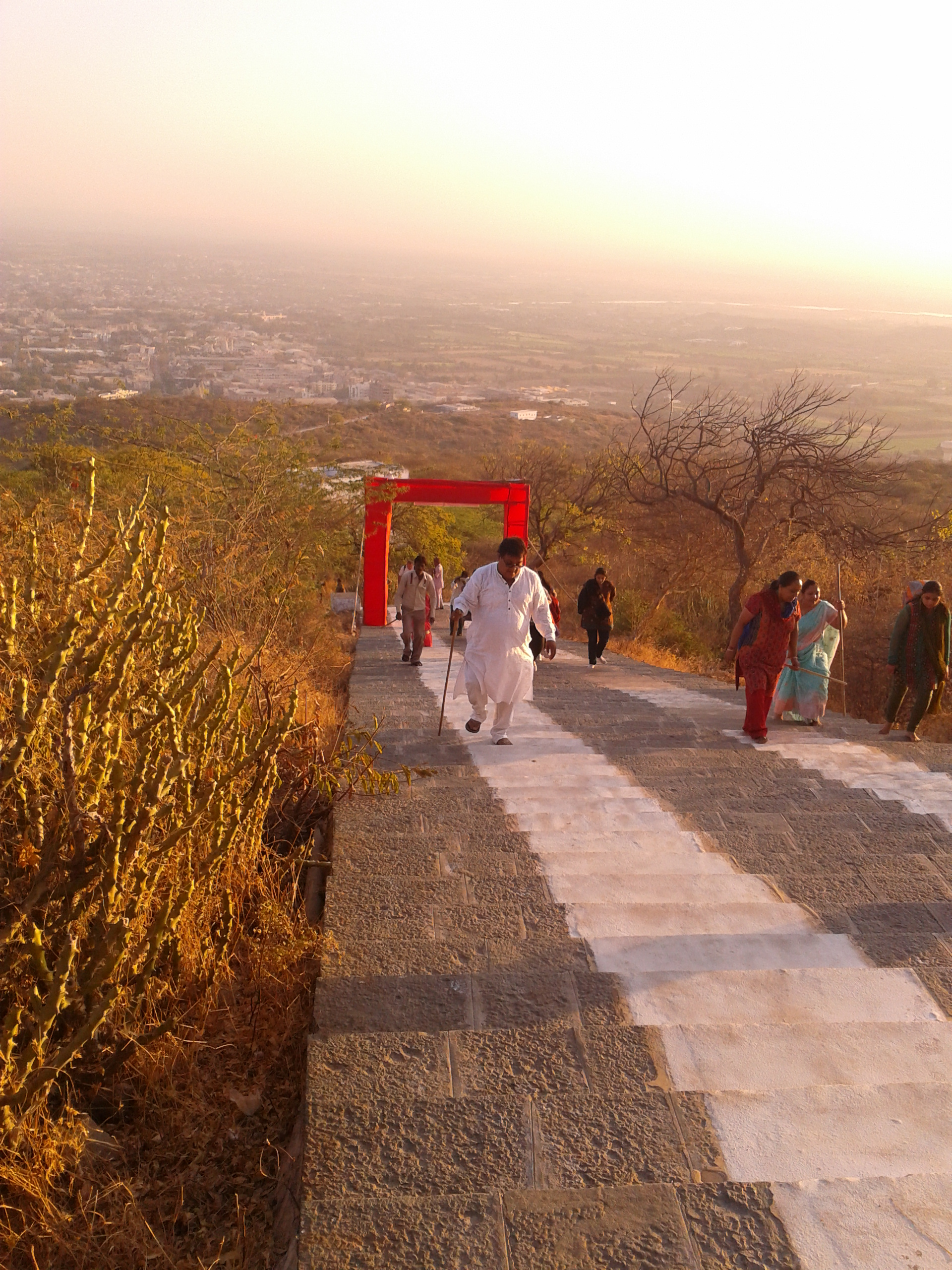 View of Pilgrims ascending Satrunjaya hill in Palitana, Gujarat, India